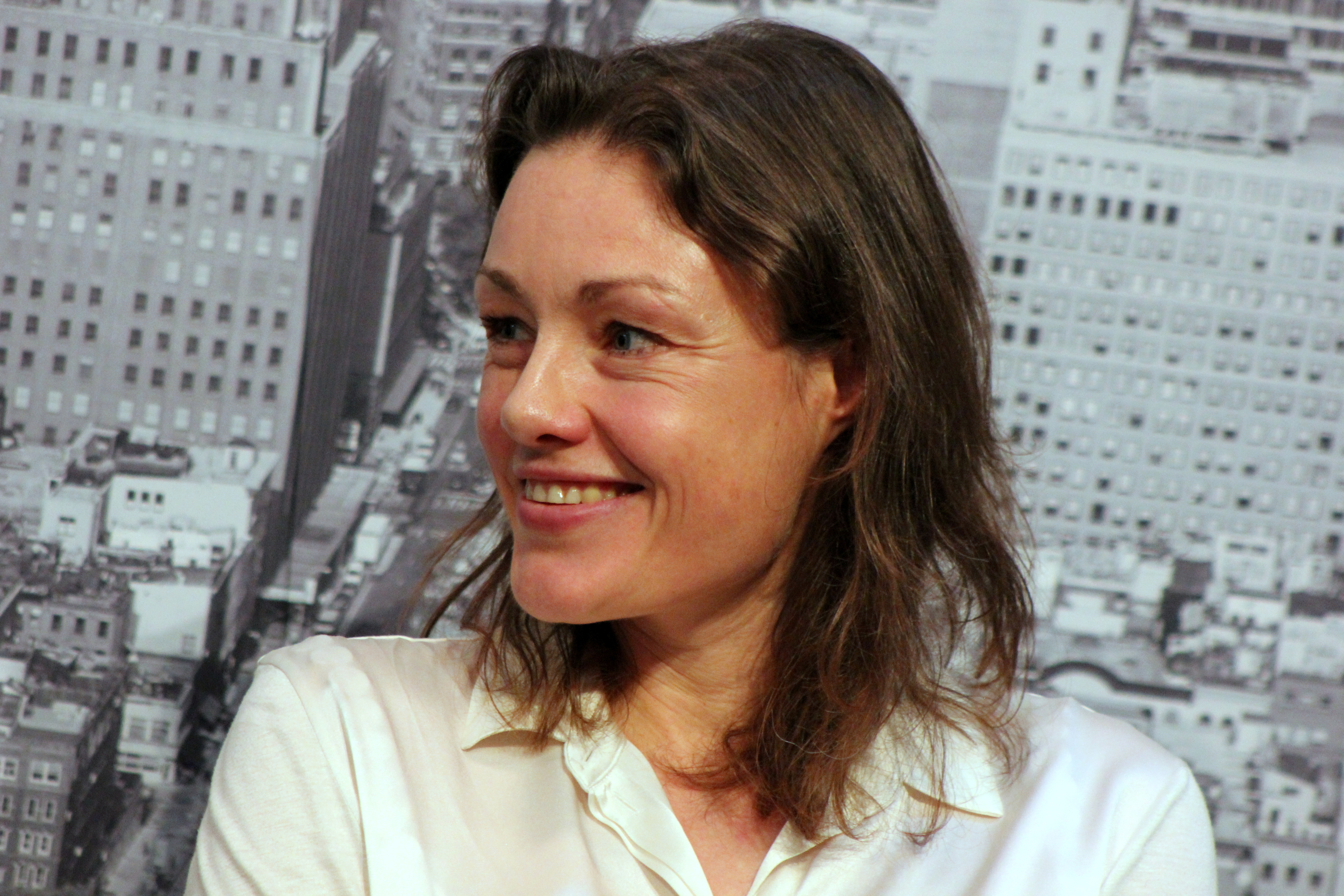 Katja Kraus, Leipzig Book Fair 2015